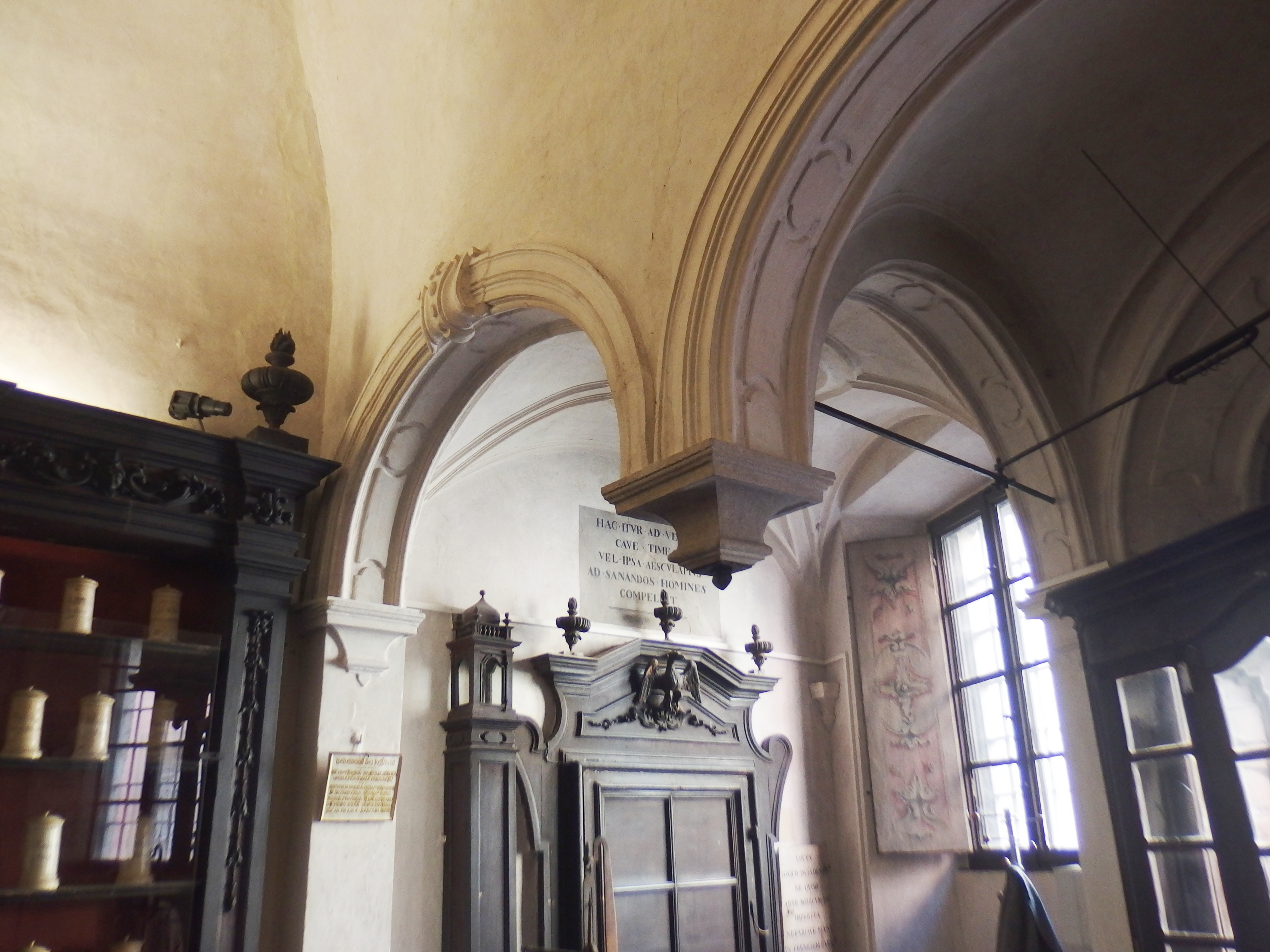 Parma, Italy. Ancient pharmacy at the Monastery of Saint John the Baptist.